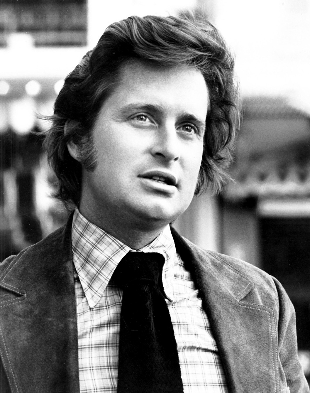 Publicity photo of Michael Douglas on The Streets of San Francisco.